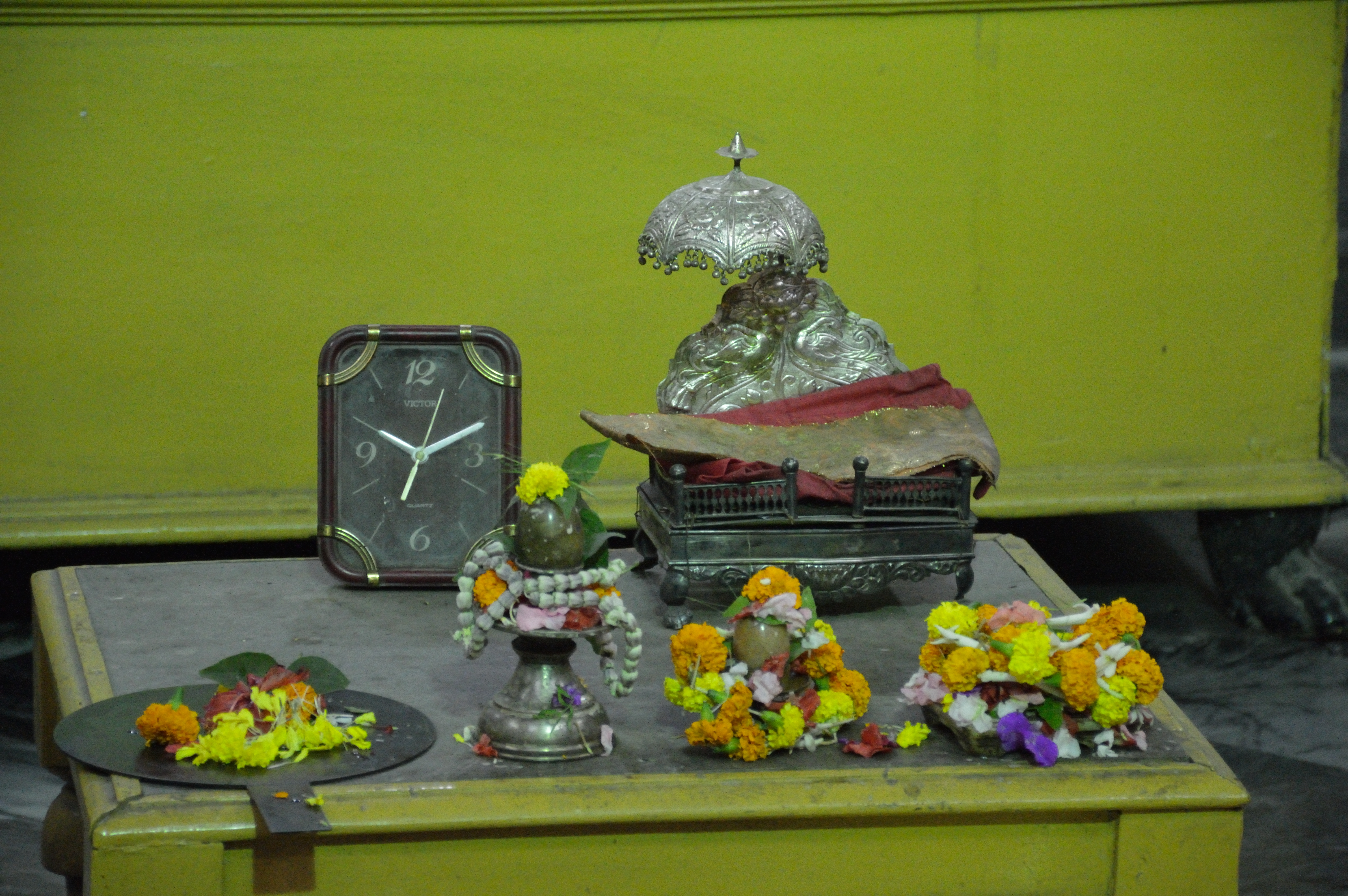 Photographed at the Kidderpore area during the Wikipedia survey/recce for new articles and Photowalk in Kolkata.